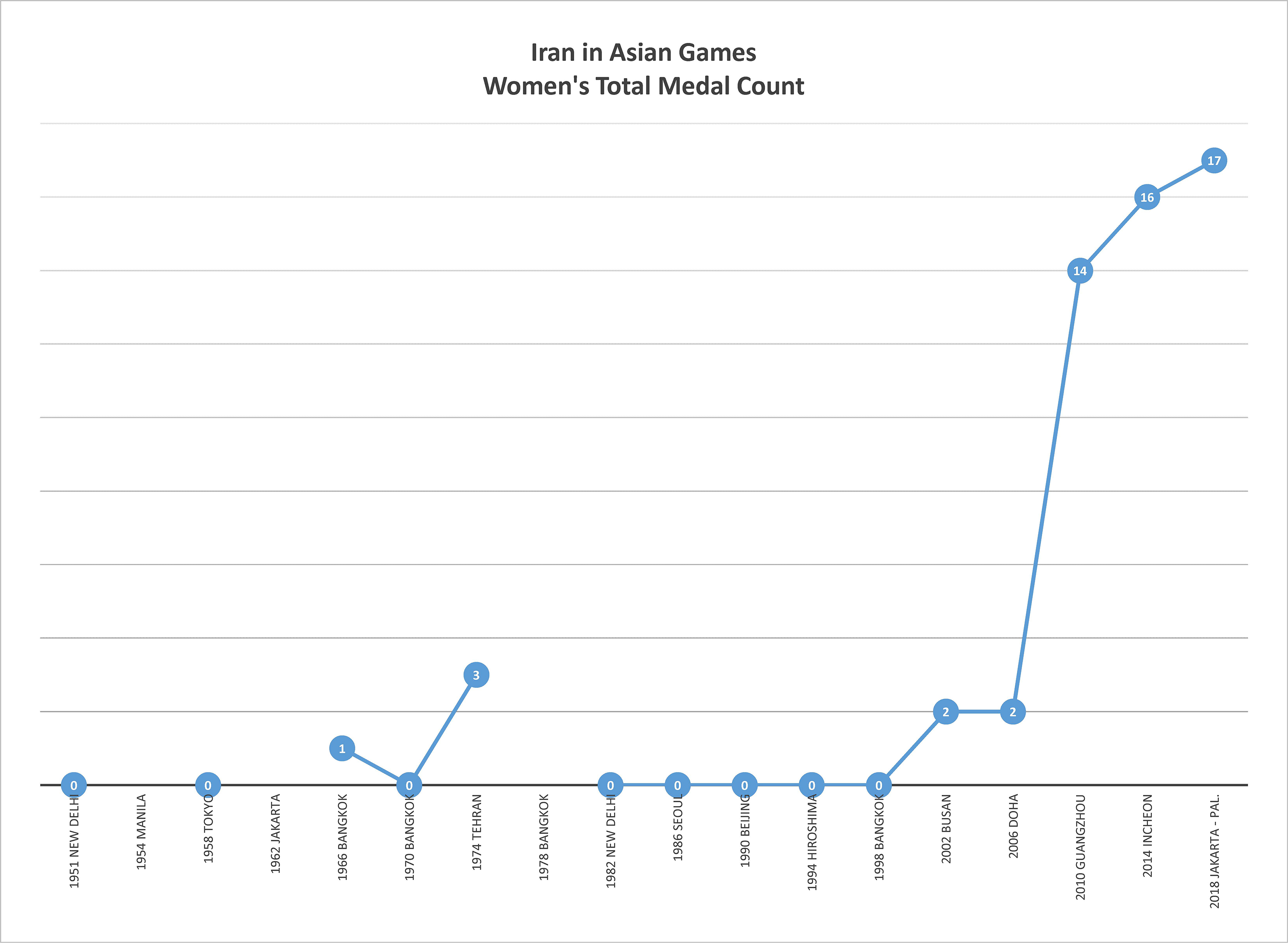 The chart shows total medals counts won bey female Iranian athletes in various Asian Games